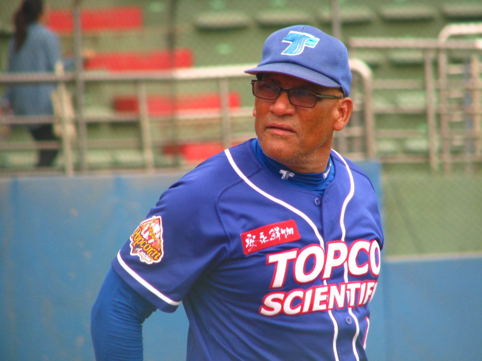 20140718湯米克魯茲